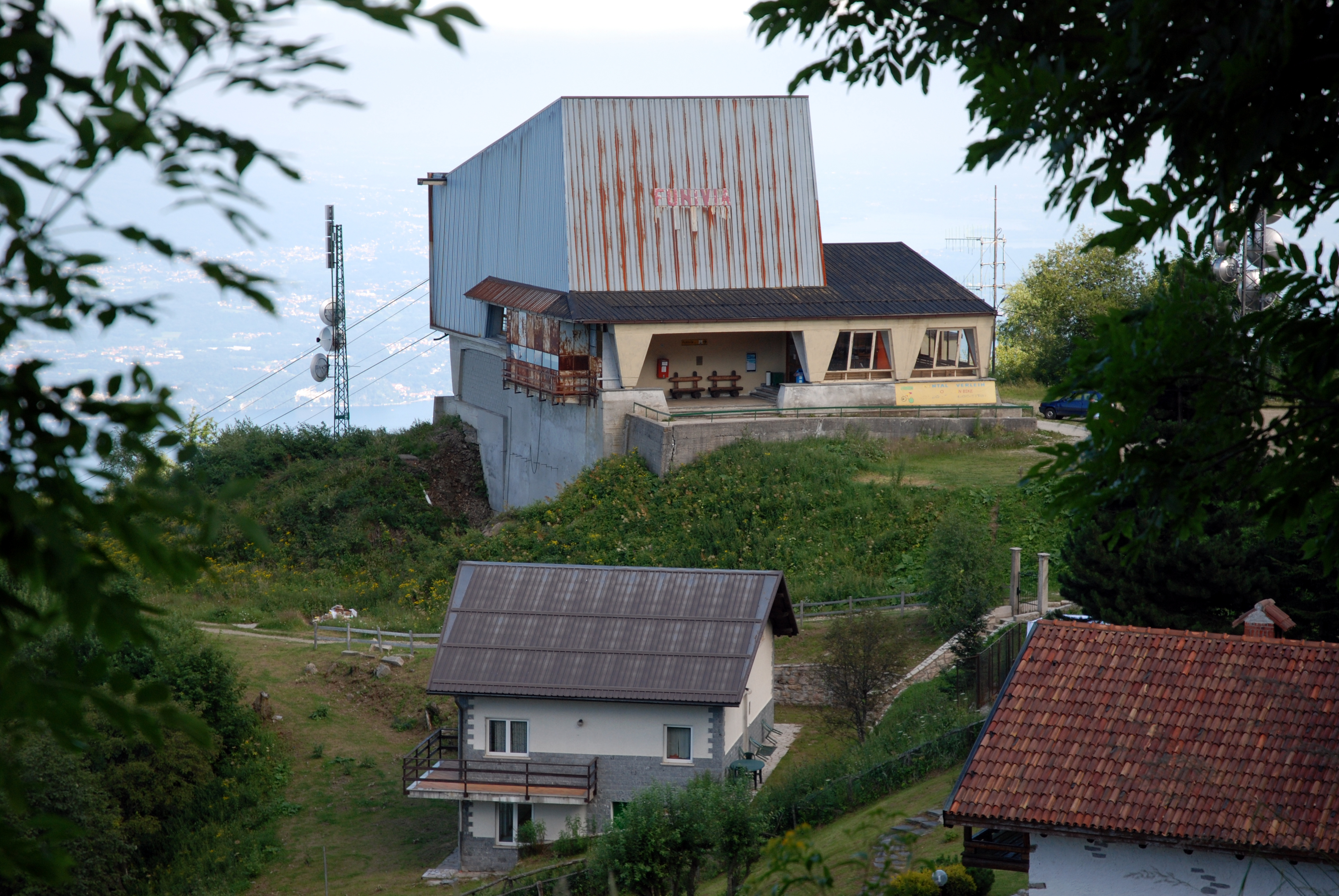 Mount Mottarone between Lake Maggiore and Ortasee, near Stresa, view on islands and Verbania